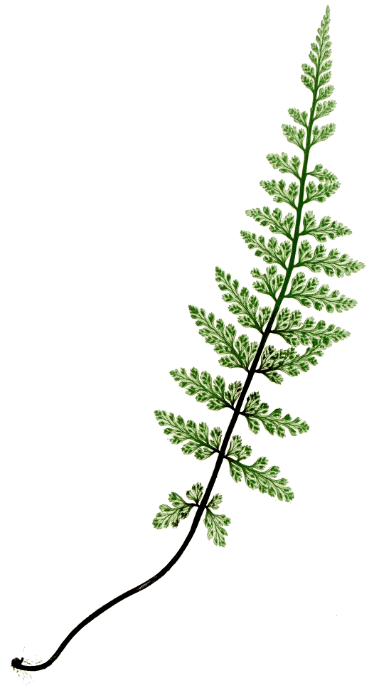 Plate 35, Fig. B1b, Asplenium lanceolatum from The Ferns of Great Britain and Ireland (Thomas Moore), 1855.